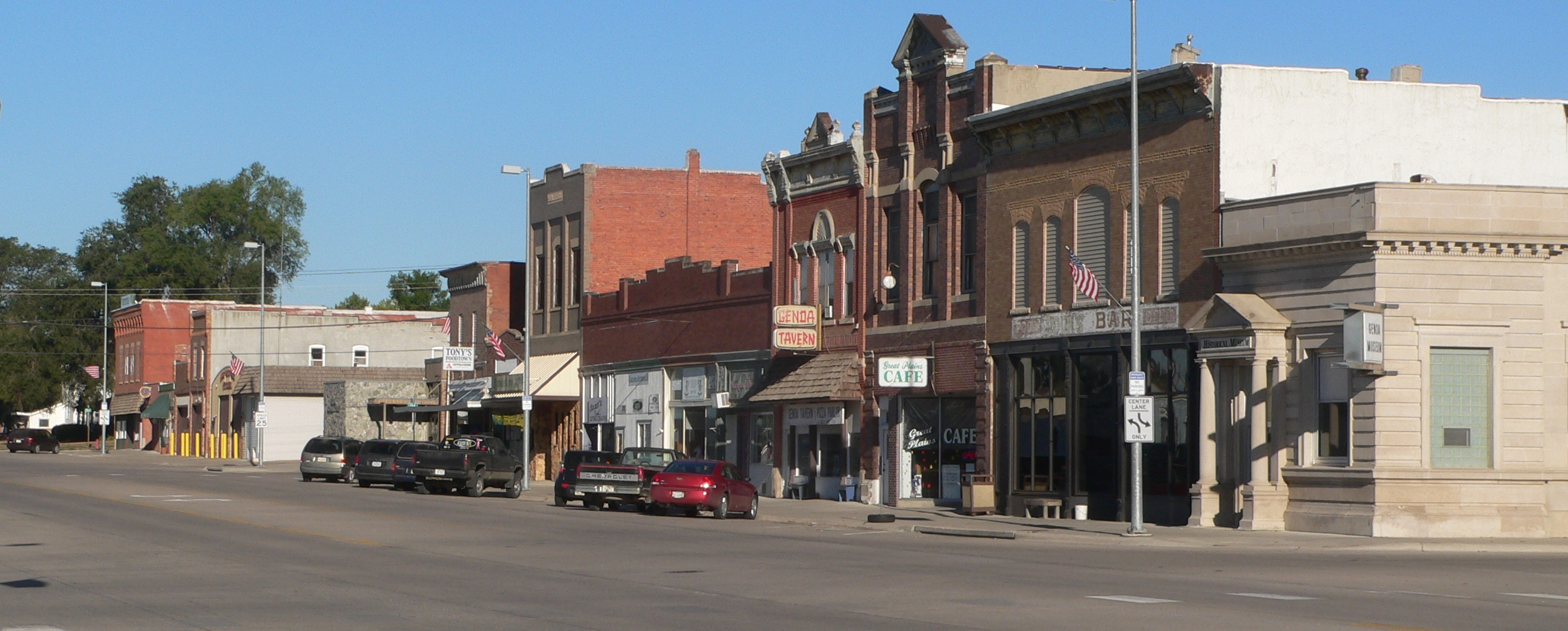 Downtown Genoa, Nebraska: north side of Willard Street, looking northwest from about Walnut Street.